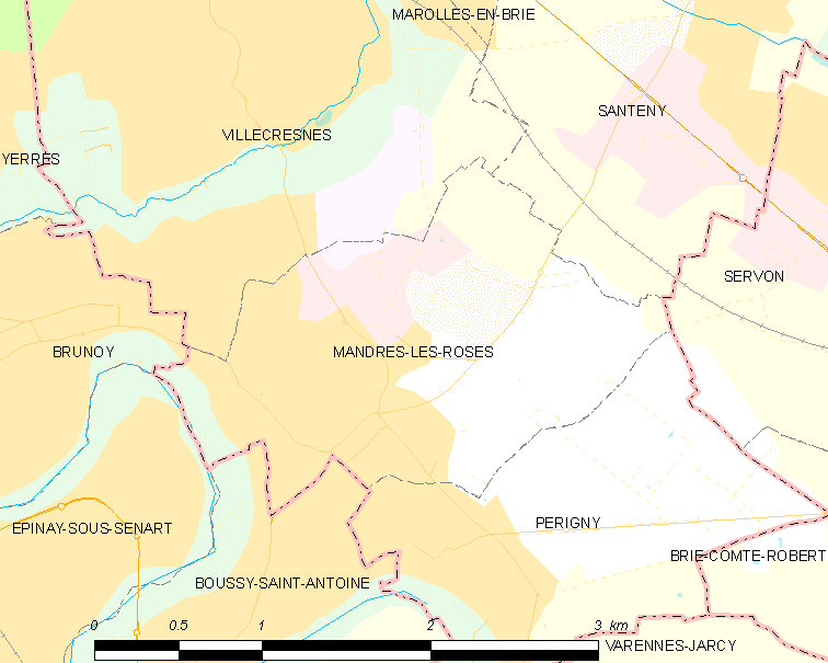 Map of French municipality Mandres-les-Roses